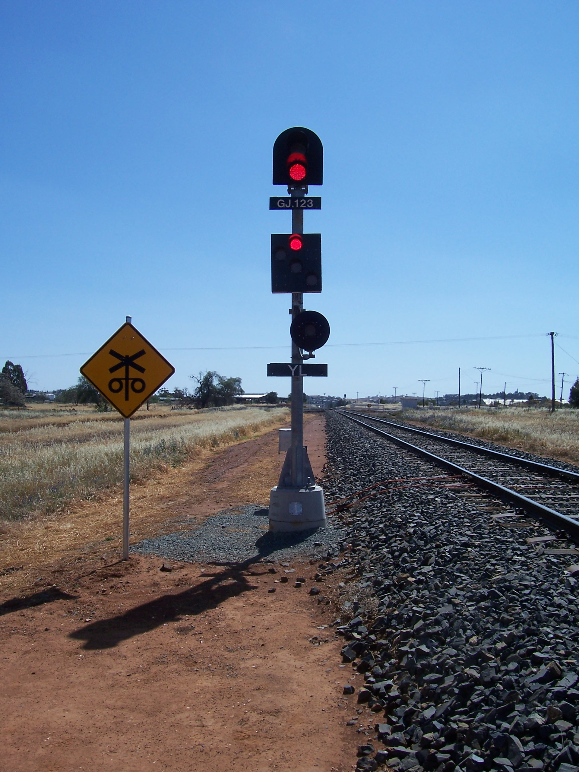 Signal Aspect colour light type signal with running turnout (band of light) signal and red marker light. Lampcase lowest on post is the shunt aspect (yellow when lit). GJ123 is the home signal entering Goobang Junction yard (near Parkes, New South Wales, Australia) from Forbes line. Yellow crossing sign indicates active level crossing ahead commences operation from that point